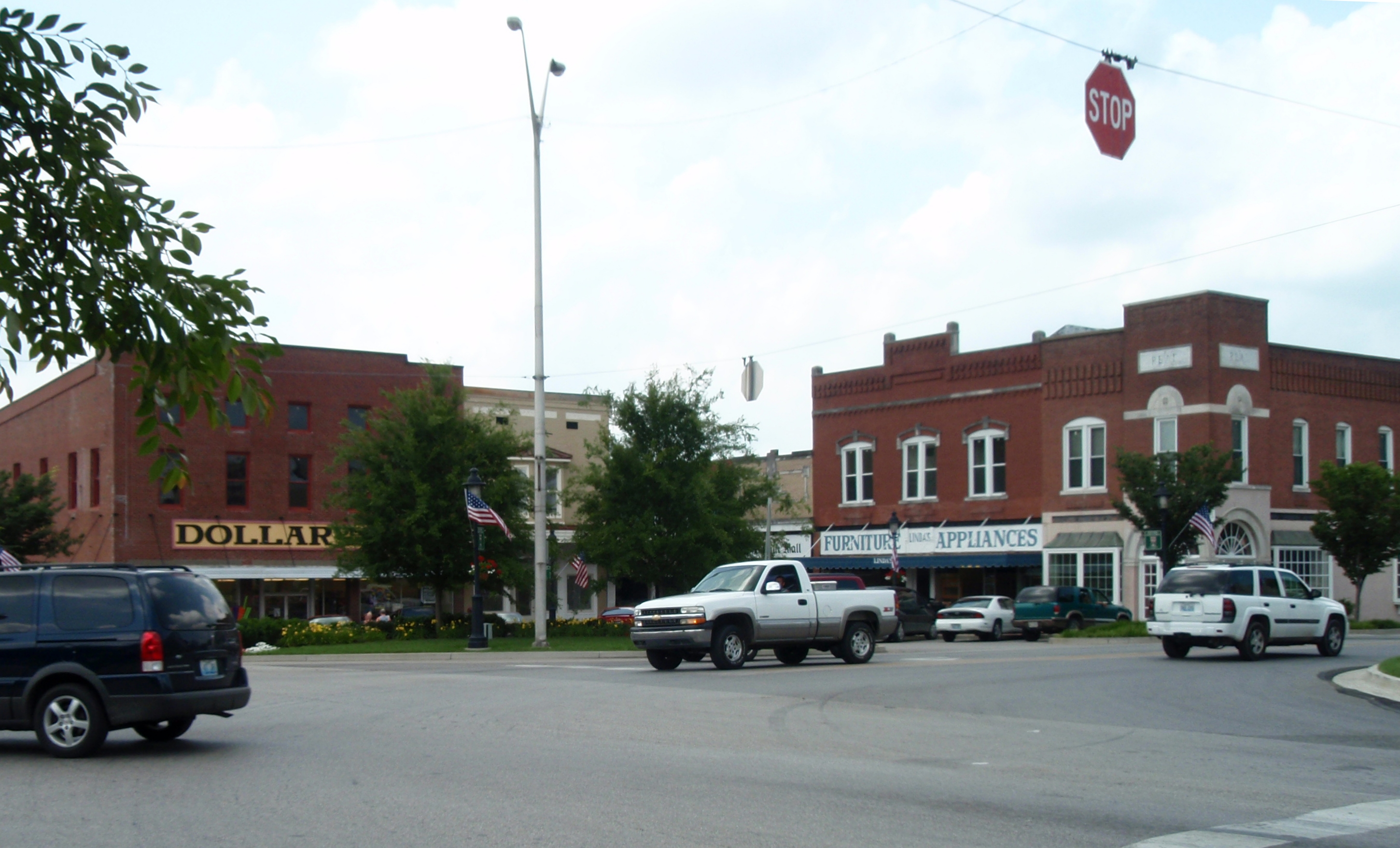 Town Square in Scottsville, Kentucky, United States